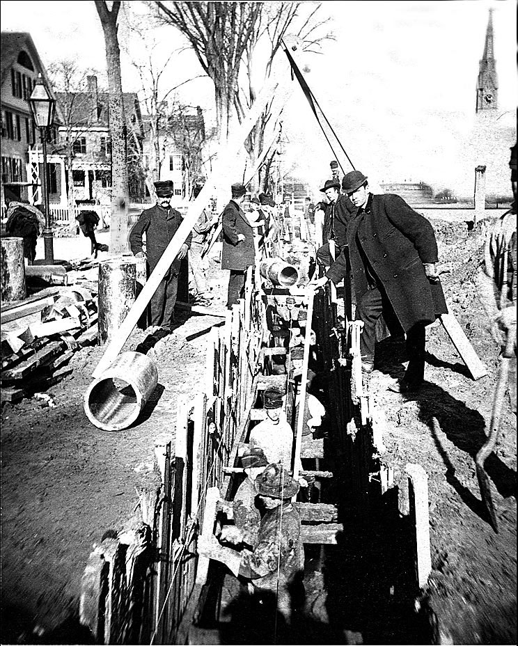 TITLE Construction of a Sewer Trench, Main Street, Keene, New Hampshire [without caption] CREATOR French, J.A., Keene NH SUBJECT Sewers - NH - Keene Roads - NH - Keene Laborers - NH - Keene DESCRIPTION Photograph of the construction of a sewer trench on Main Street in Keene NH. The Superintendent of Public Works (in the bowler hat), inspects the work. The photo was taken just north of Emerald Street and shows the Unitarian Church steeple on the right and the Colonial Inn on the left, which later became the current Colonial Theatre. PUBLISHER Keene Public Library and the Historical Society of Cheshire County DATE DIGITAL 20091120 DATE ORIGINAL 188211 RESOURCE TYPE photographs FORMAT image/jpg RESOURCE IDENTIFIER HS300-P2269 RIGHTS MANAGMENT No known copyright restrictions.